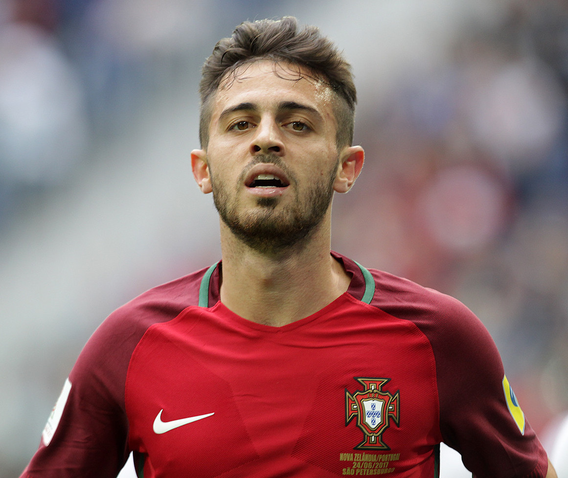 New Zealand VS. Portugal 0 - 4, 24 June 2017